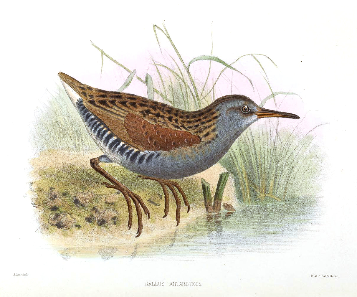 Rallus antarcticus